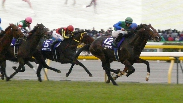 Tosen-Jordan20111030(1)